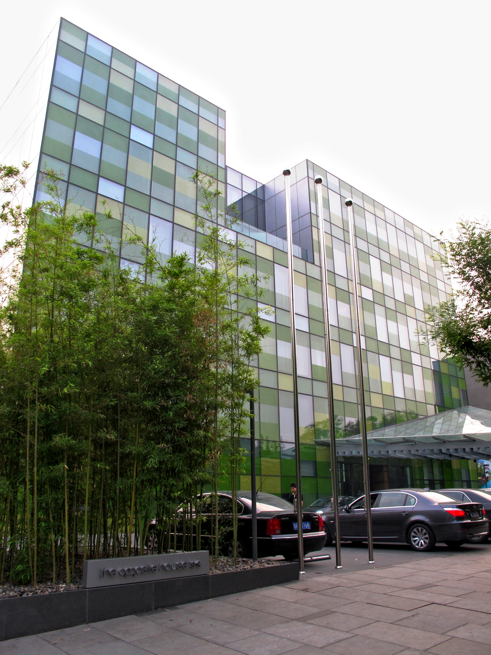 the Opposite House, Sanlitun Village, Beijing